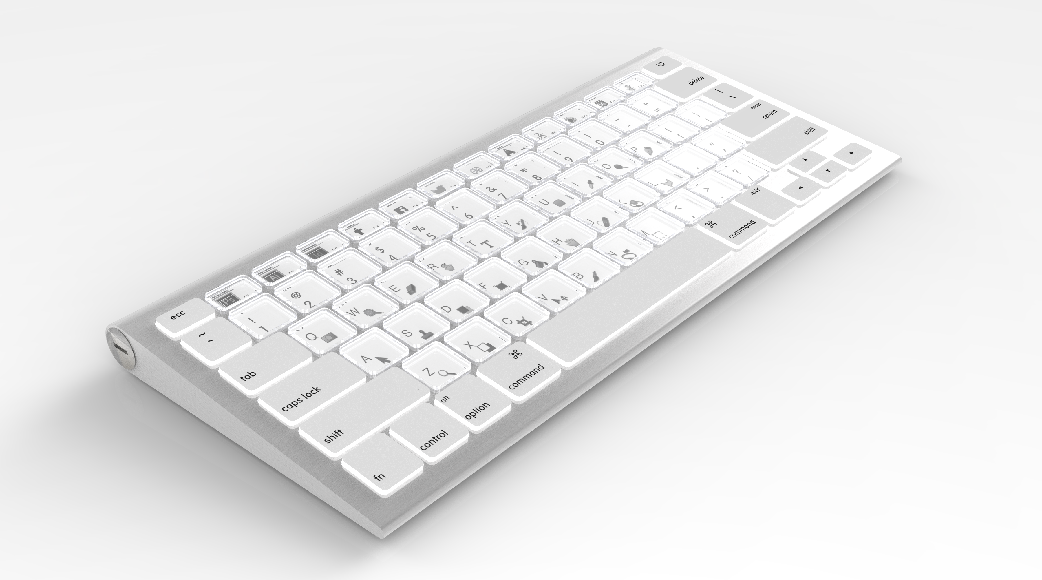 Sonder bluetooth keyboard.